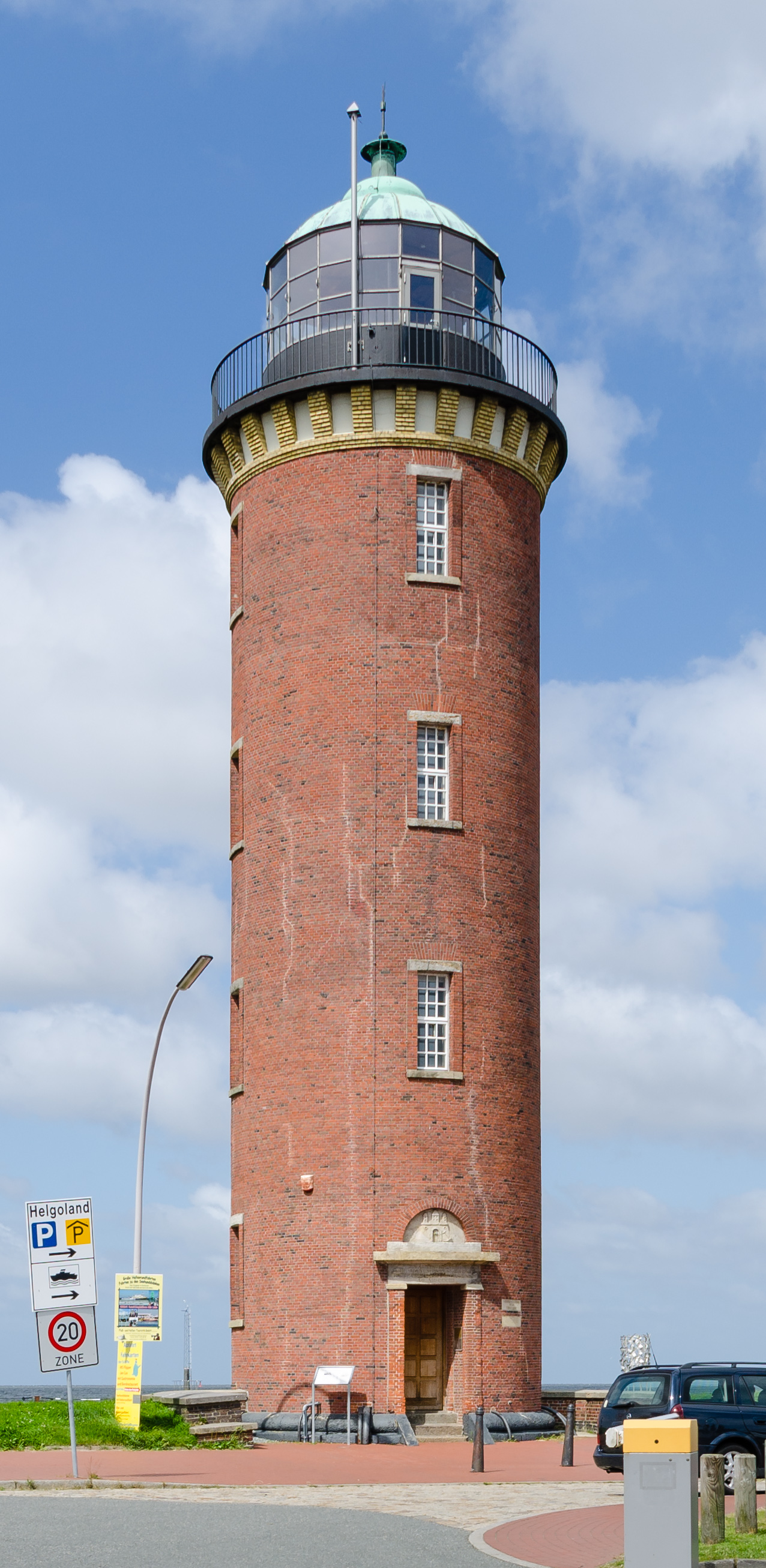 Lighthouse of Hamburg in the harbour of Cuxhaven photographed from the Old Love ("Alte Liebe")